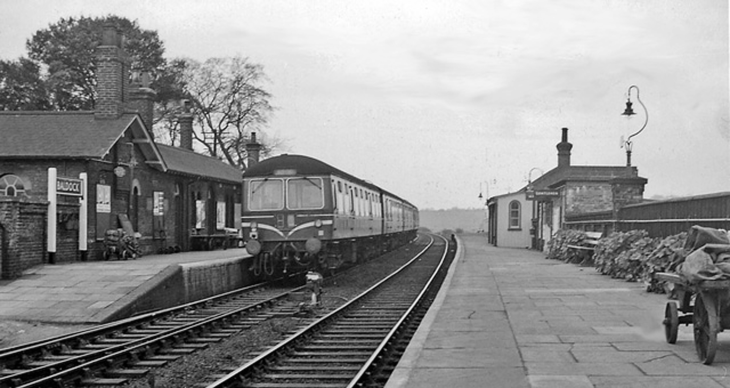 Baldock Station. Still a flourishing station on the Hitchin - Cambridge line (now electrified). View is westwards towards Hitchin and a Diesel railcar of one of the early designs is seen on a Cambridge - King's Cross service